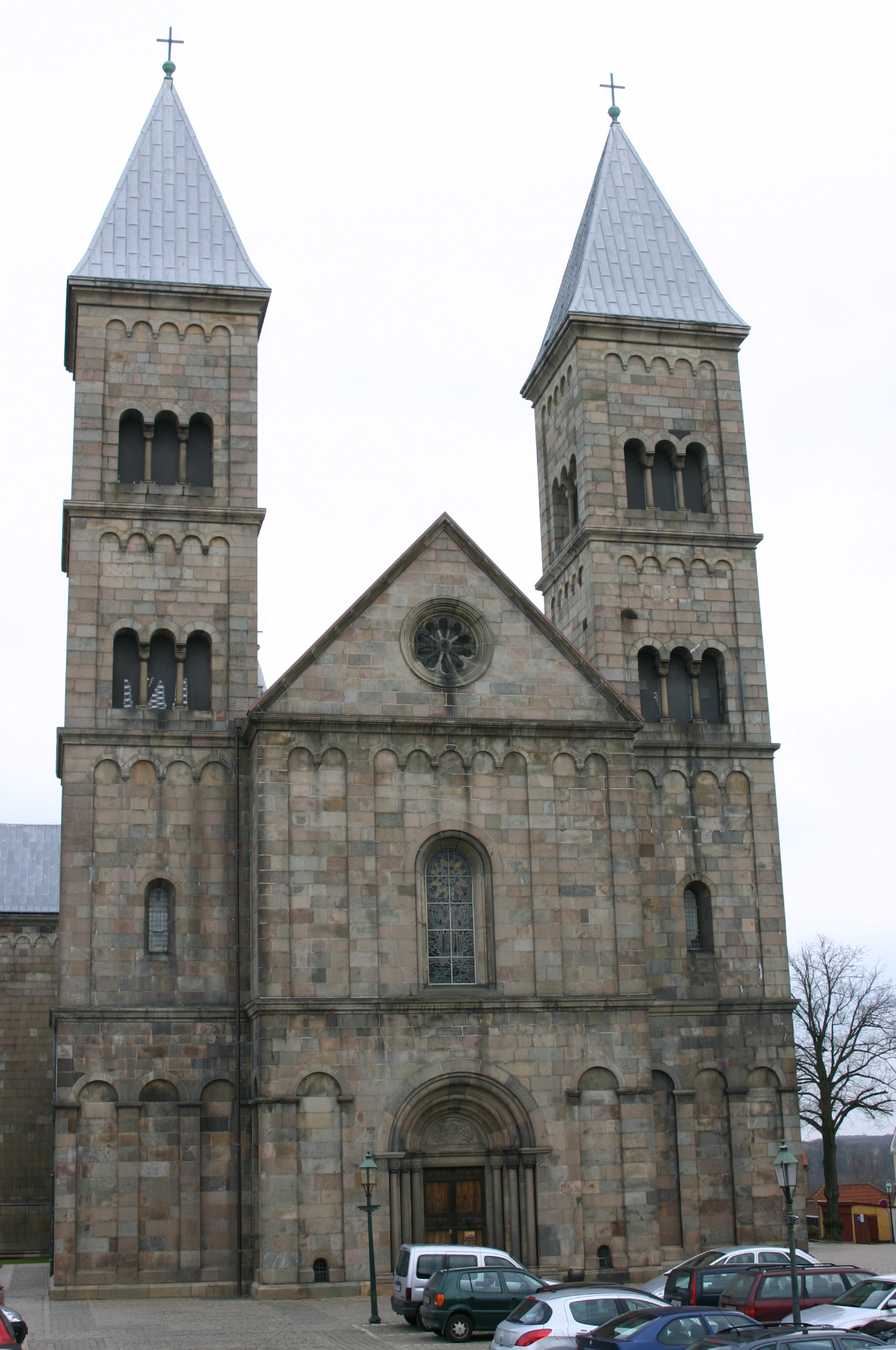 Cathedral of Viborg, Denmark